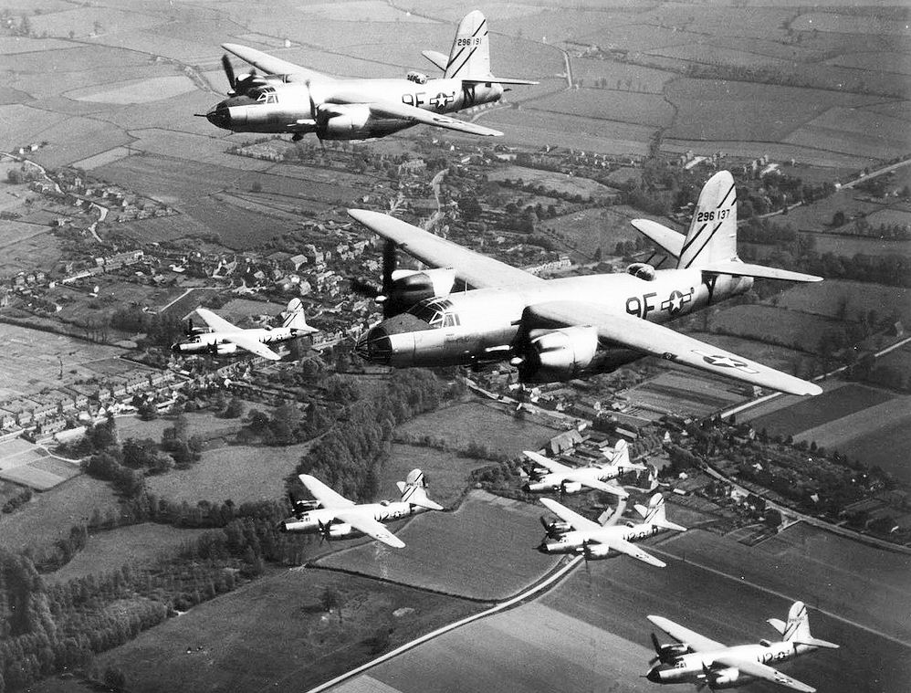 Formation of Martin B-26Bs of the 397th Bomb Group, based at RAF Rivenhall, England. Closest two aircraft are B-26B-55-MA S/N 42-96137 (9F-Y) and 42-96191 (9F-N) "Milk Run Special" of the 597th BS, 397th BG, 9th AF. The other B-26's are from the 598th Bomb Squadron. Photo taken before D-Day, as the Marauders are not painted with invasion stripes. 42-96137 was shot down on May 13,1944. 42-96191 was shot down on June 24,1944.